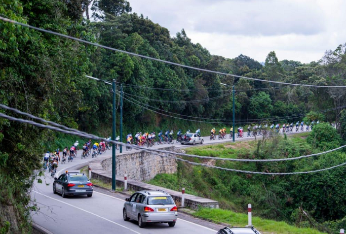 TOUR DU RWANDA allows African riders to highlight in the context of a passage in professional and well run in the top professional teams in the world’s elite. Until 2008, TOUR DU RWANDA was a regional cycling race that brought together Rwandans but also riders from neighboring Burundi, Tanzania, Uganda. But now each year, riders from far away (USA, Belgium, Canada, France, ...) or closest (Kenya, South Africa, Eritrea, Algeria, Gabon, ..) are participating and challengie the Rwandan riders on their land.